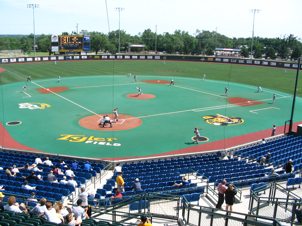 Tyler Field in Eck Stadium. Photo taken by myself, User:EMcCutchan